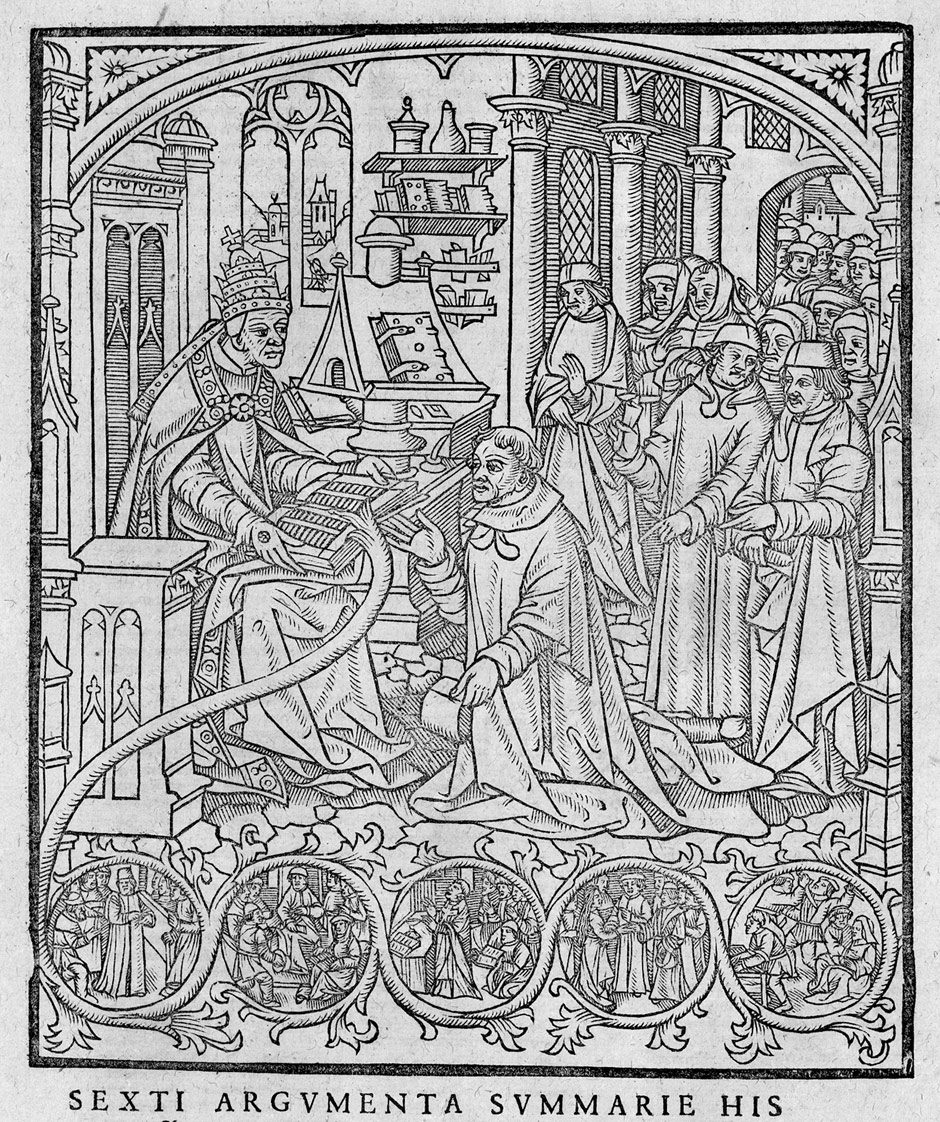 Woodcut from: Corpus juris canonici (Gregor IX. Pont. Max. Decretales Gregorii IX. Pont. Max. svis Commentariis Illustratae: Ab innumeris pene mendis repurgata, & pristino suo nitori ex antiquorum exemplarium collatione, tam in textu quam in glossis optima fide feliciter restituta. Quibus addita sunt ex integris ipsis Decretalibus, non minus necessaria quam vtiles annotationes, & interpretationes germana, ac compluribus in locis (vt passim videre est) lectiones varia, Opera ac diligentia Martini Gilberti, ordinarij iuris ponteificij professoris in alma Parisiorum Academia, & in supremo Senatu Aduocati. Huic postrema adeitioni accessit repertorium continens concordantias Rubricarum & Materiarum, in Sexto, Clementinis, Decreto, & toto corpore Iuris Civilis sibi inter se correspondentium), Antwerpen, Chrph. Platin, Joh. Stelfsius Wwe. u. Phil. Nutius, 1573